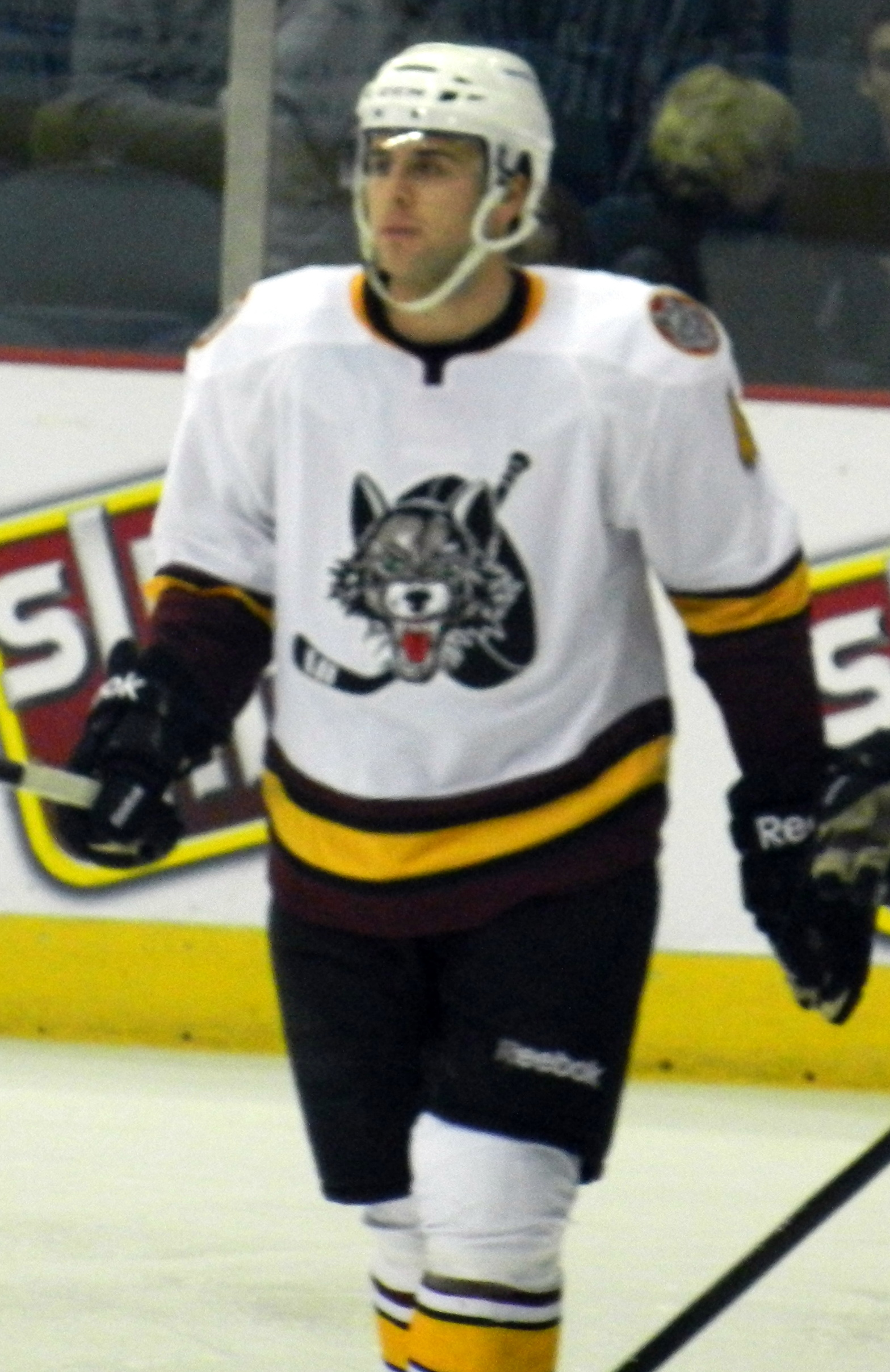 Yann Sauve playing for the Chicago Wolves during the 2011-12 AHL season